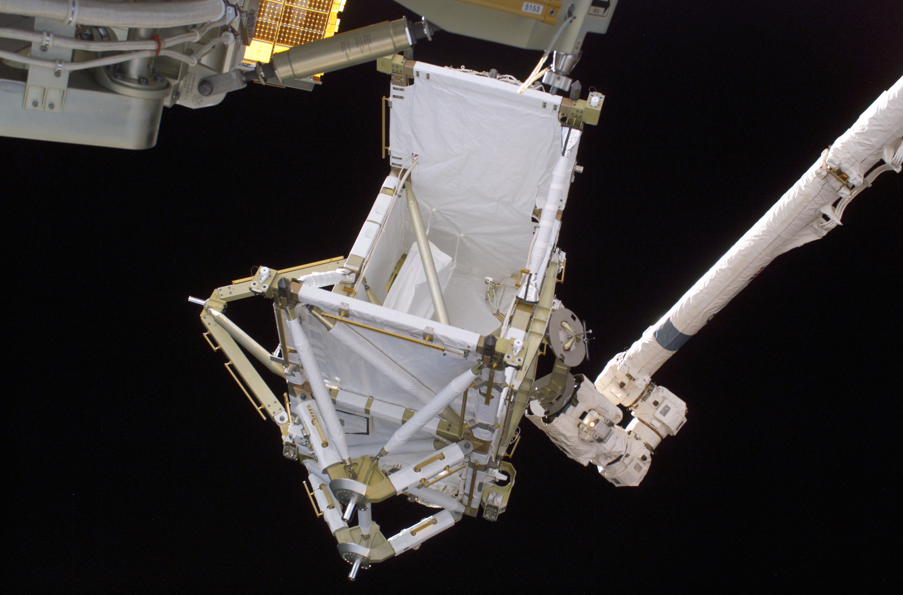 STS-116 Shuttle Mission Imagery ISS014-E-09479 (12 Dec. 2006) --- The International Space Station's new P5 truss section awaits installation following the hand-off from Space Shuttle Discovery's Remote Manipulator System (RMS) robotic arm. The truss section was handed to the station's Canadarm2 and remained suspended over Discovery's port wing overnight, awaiting installation in the first of three planned spacewalks on Dec. 12.